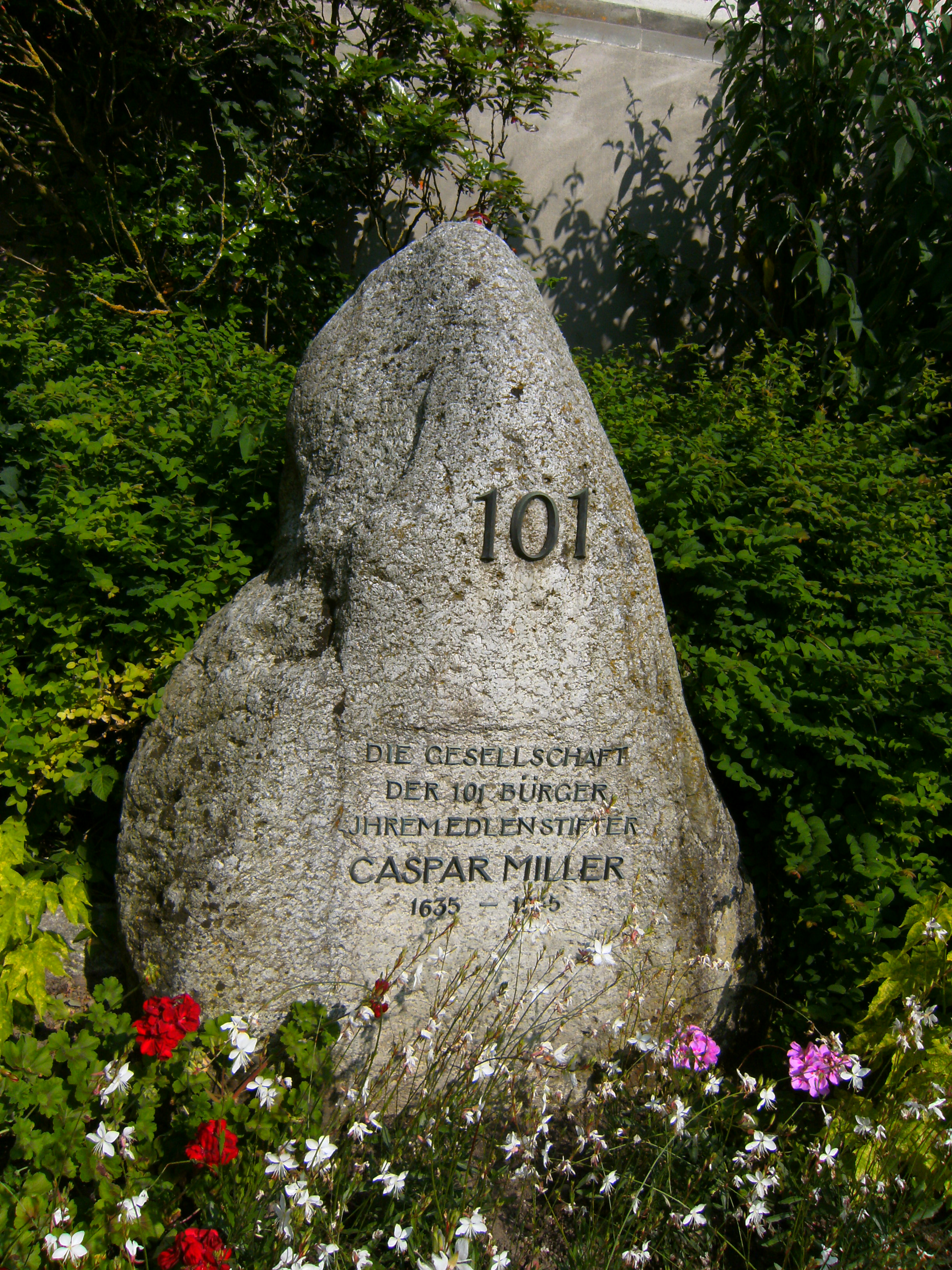 Stone in memory of Caspar Miller, founder of the Society of 101 townsmen in Meersburg, Germany.